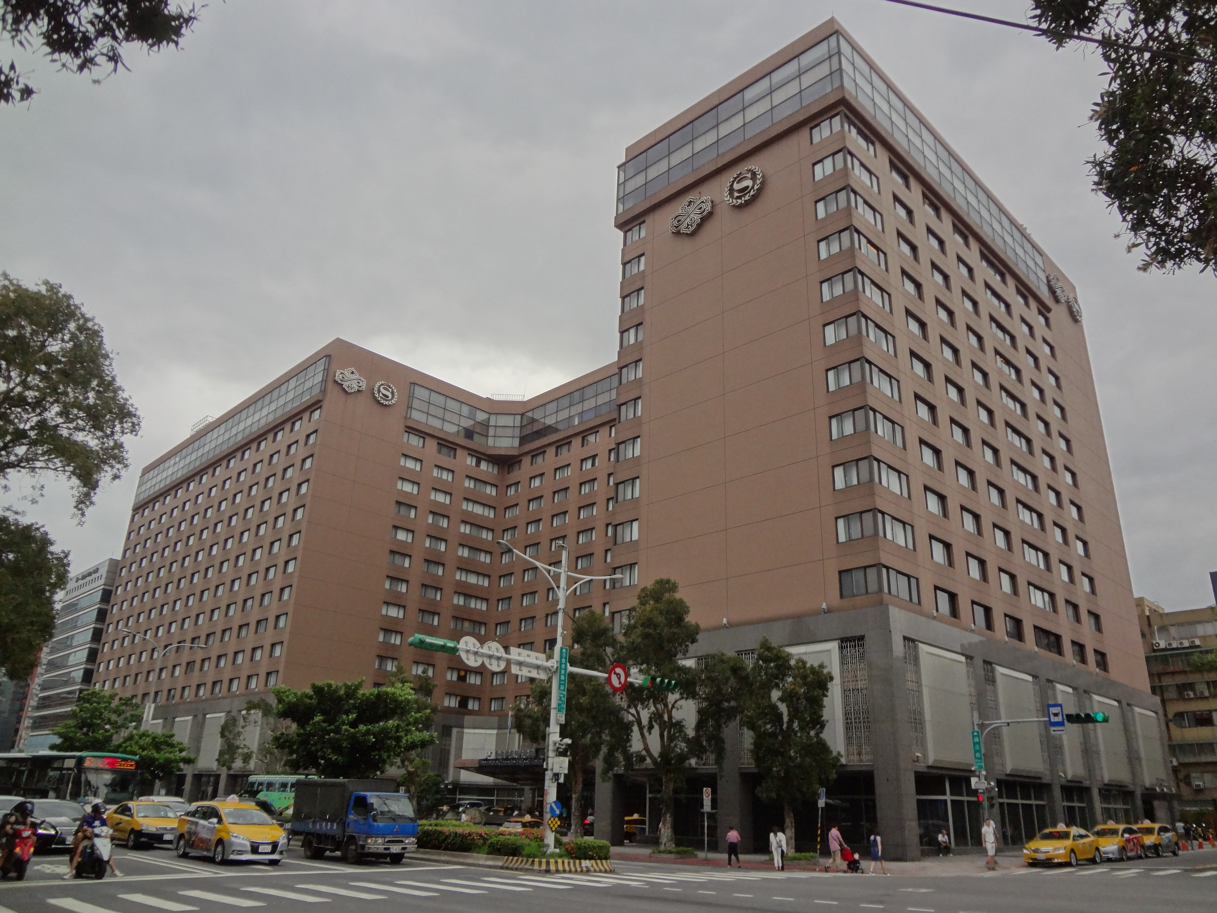 Sheraton Grande Taipei - No. 12, Zhongxiao East Road Section 1, Zhongzheng District, Taipei City, Taiwan